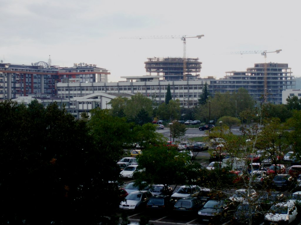 Construction 2009 oct.